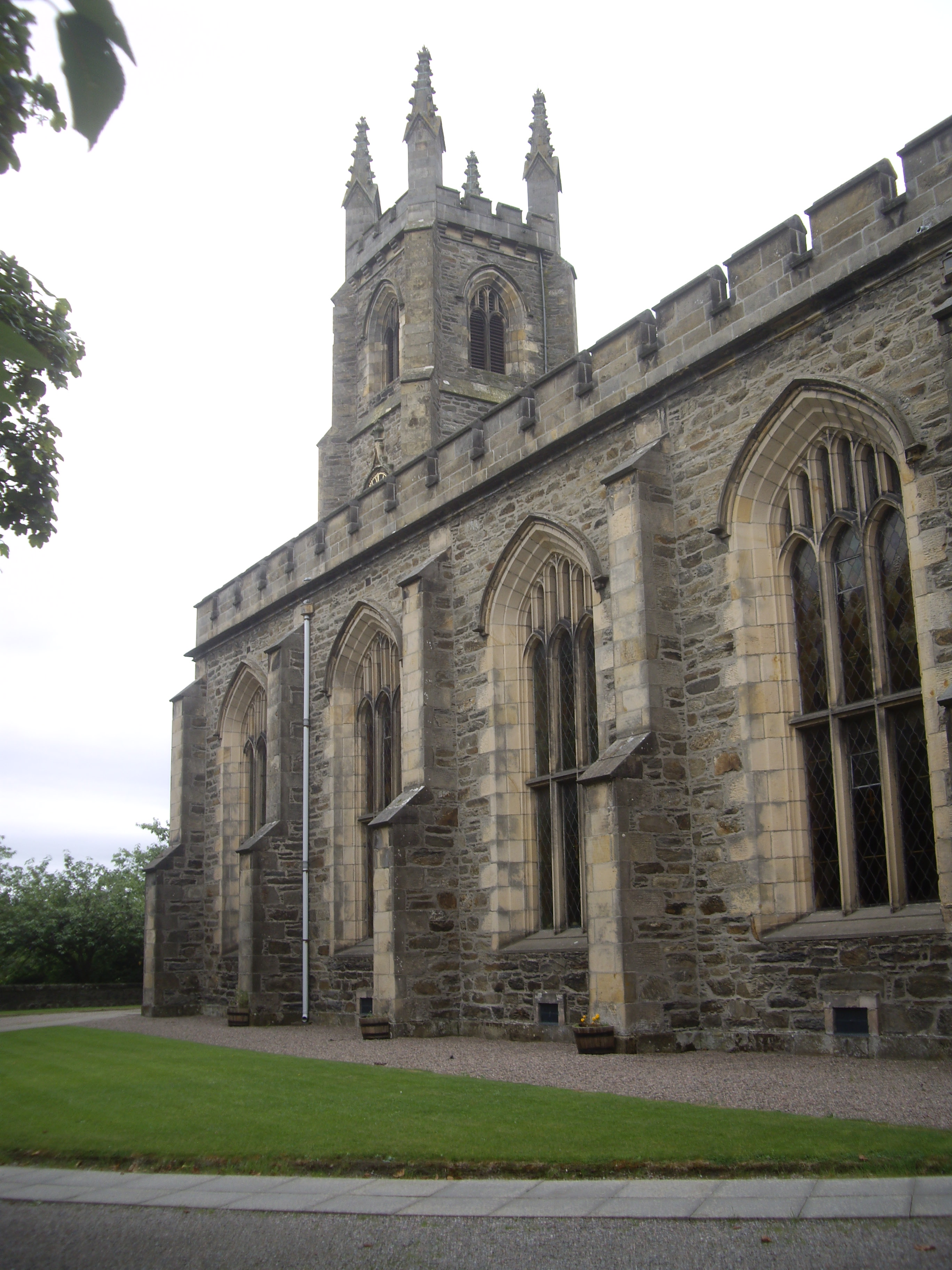 The southern elevation of St Rufus Church in Keith, Moray, Scotland